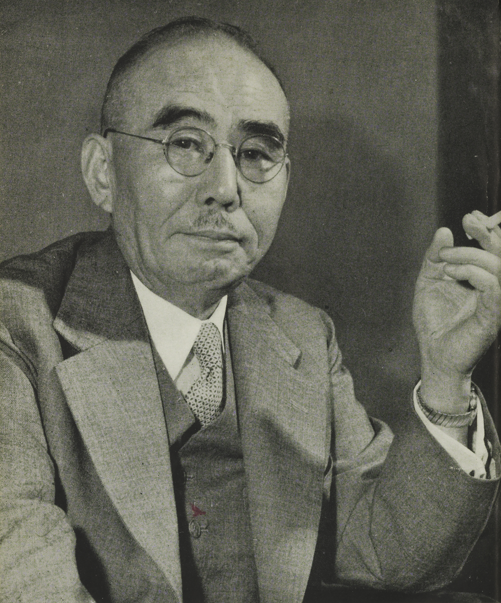 Portrait of Ishibashi Tanzan (石橋湛山, 1884 – 1973)